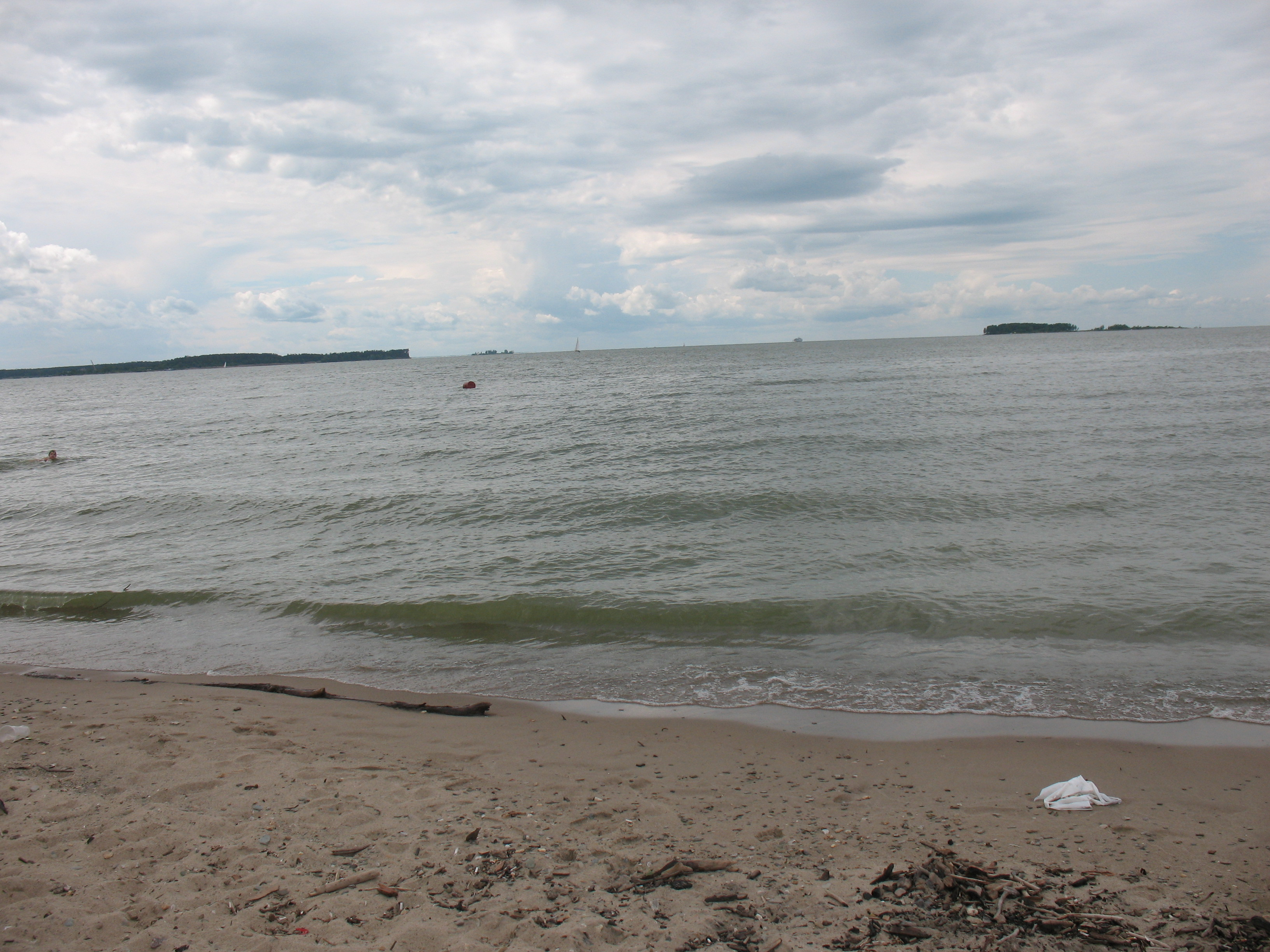 Обское море